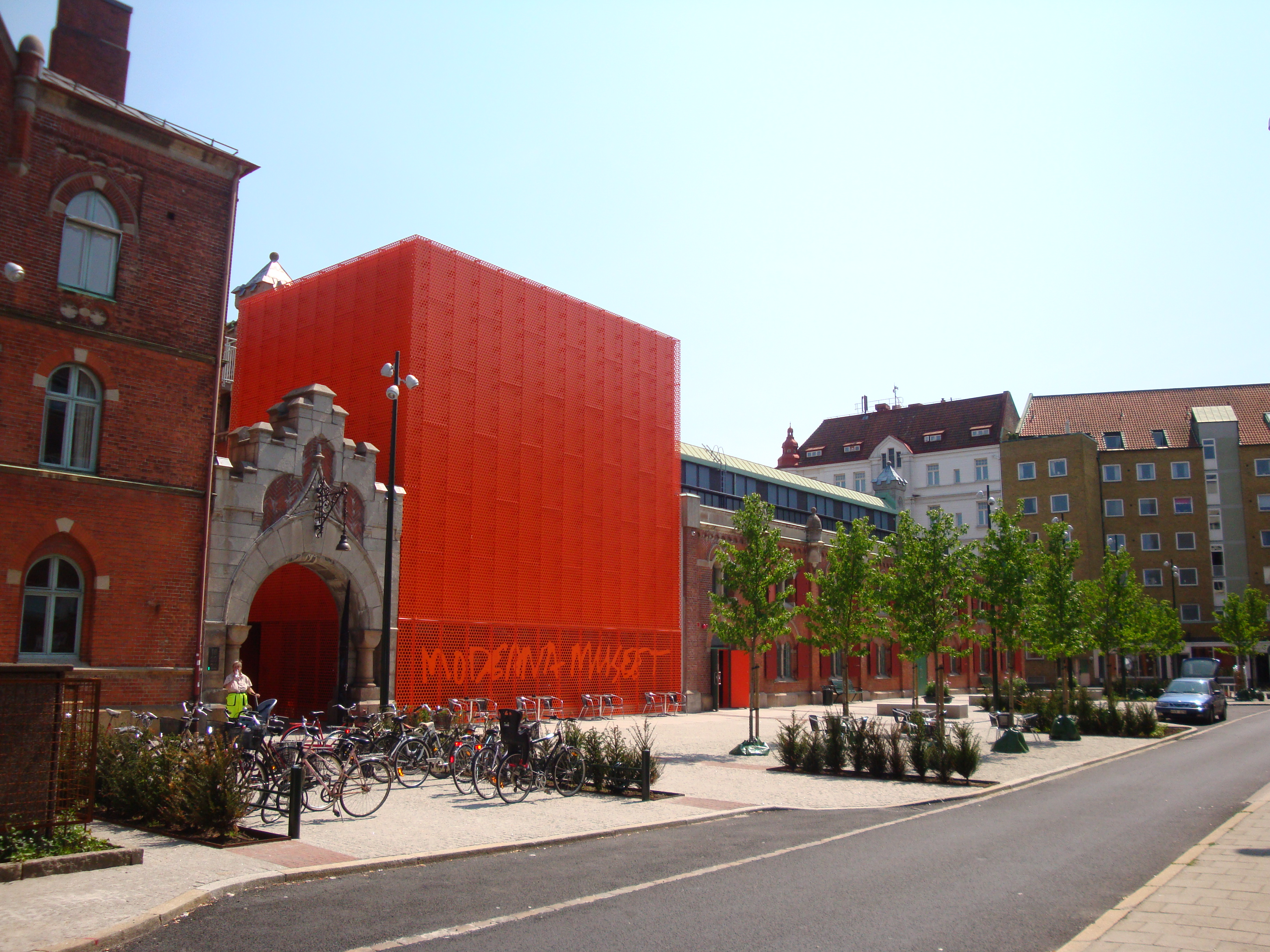 Swedish Museum of modern art, Malmö branch